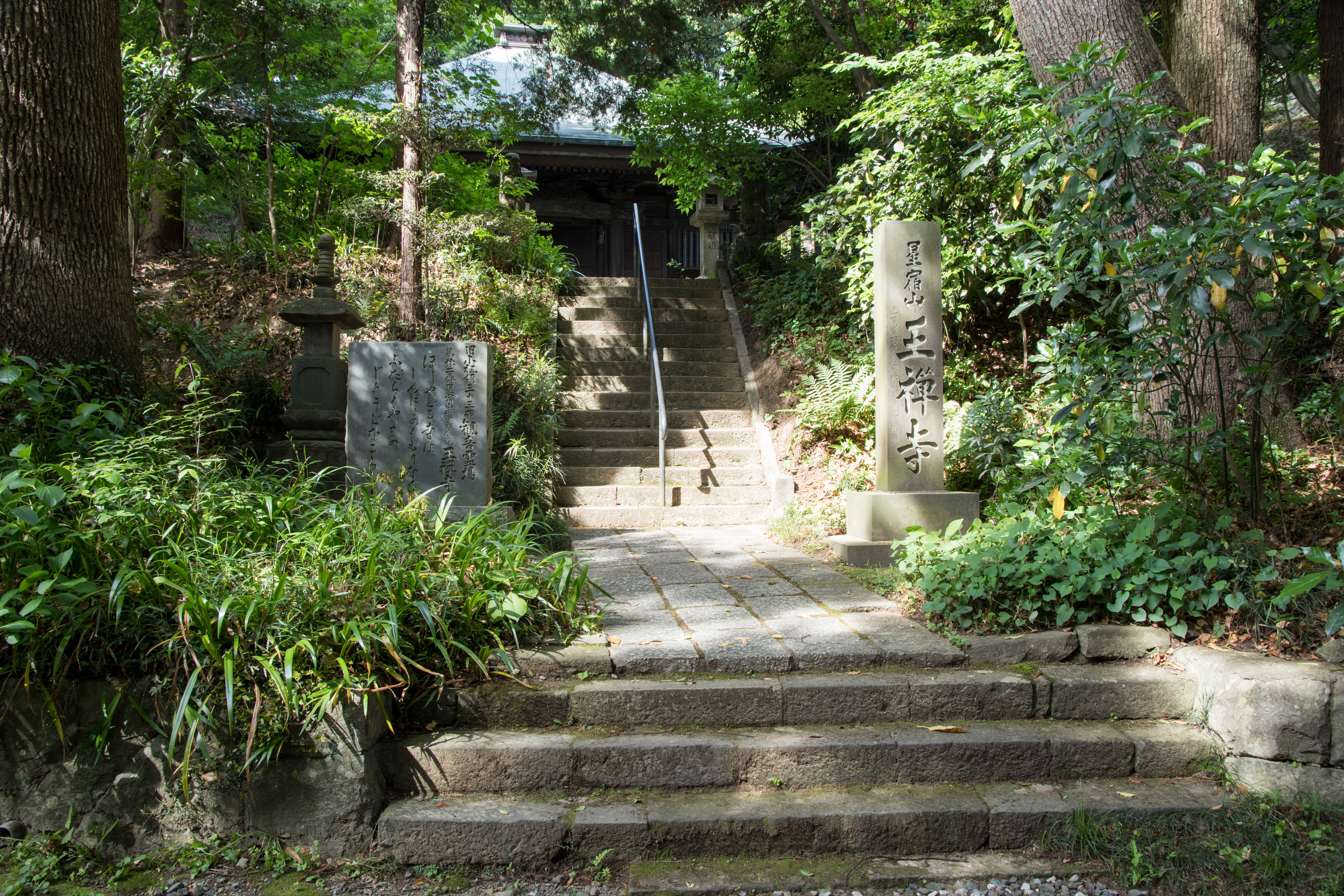 Seishukuzan Ozenji Temple, Kawasaki City, Kanagawa, Japan